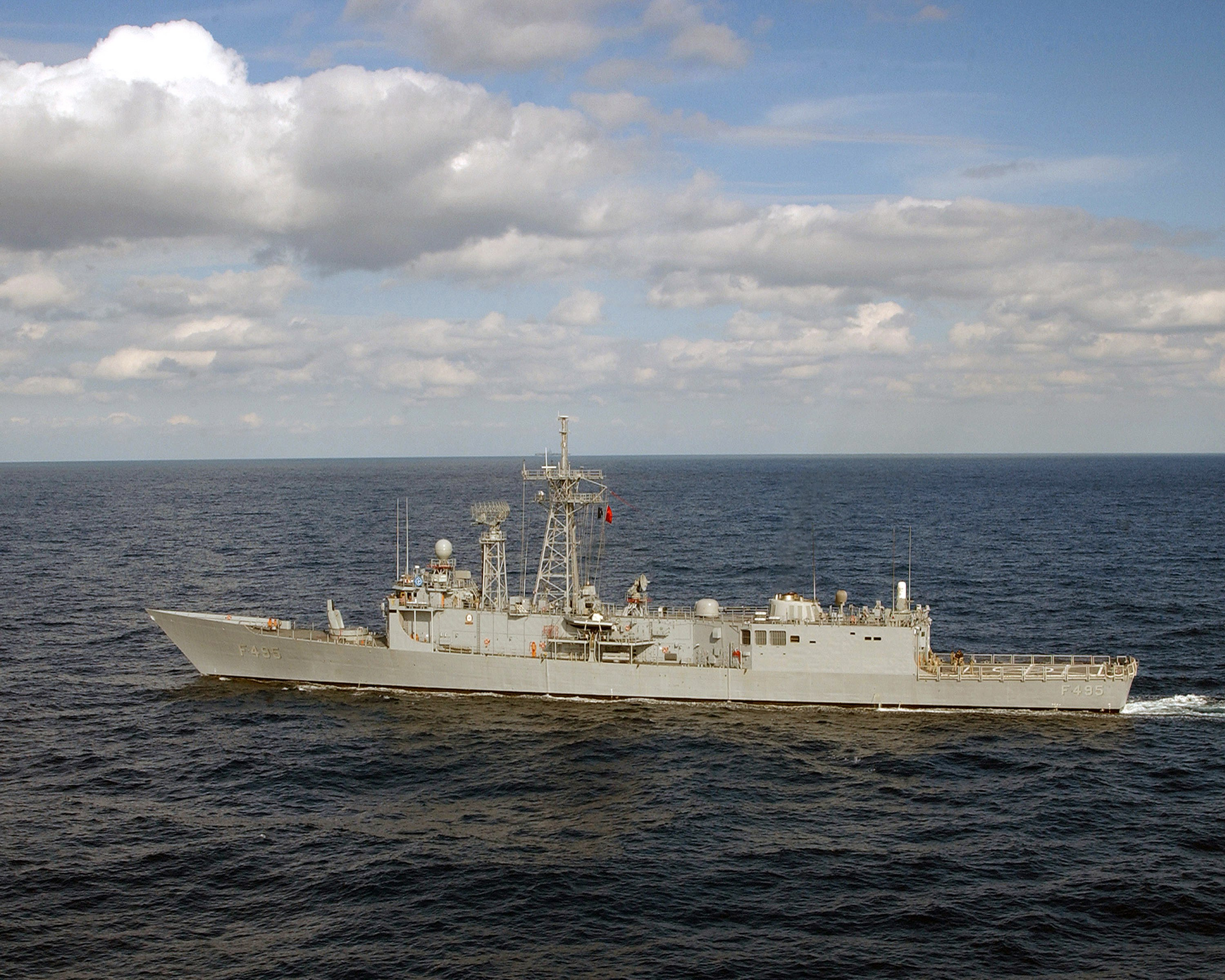 At sea aboard USS Harry S. Truman (CVN-75) Jan. 22, 2003 — Turkish NATO Oliver Hazard Perry-class frigate TCG Gediz (F-495) operates near USS Harry S. Truman. Truman and Carrier Air Wing Three (CVW-3) are deployed on a regularly scheduled six-month deployment in support of Operation Enduring Freedom.